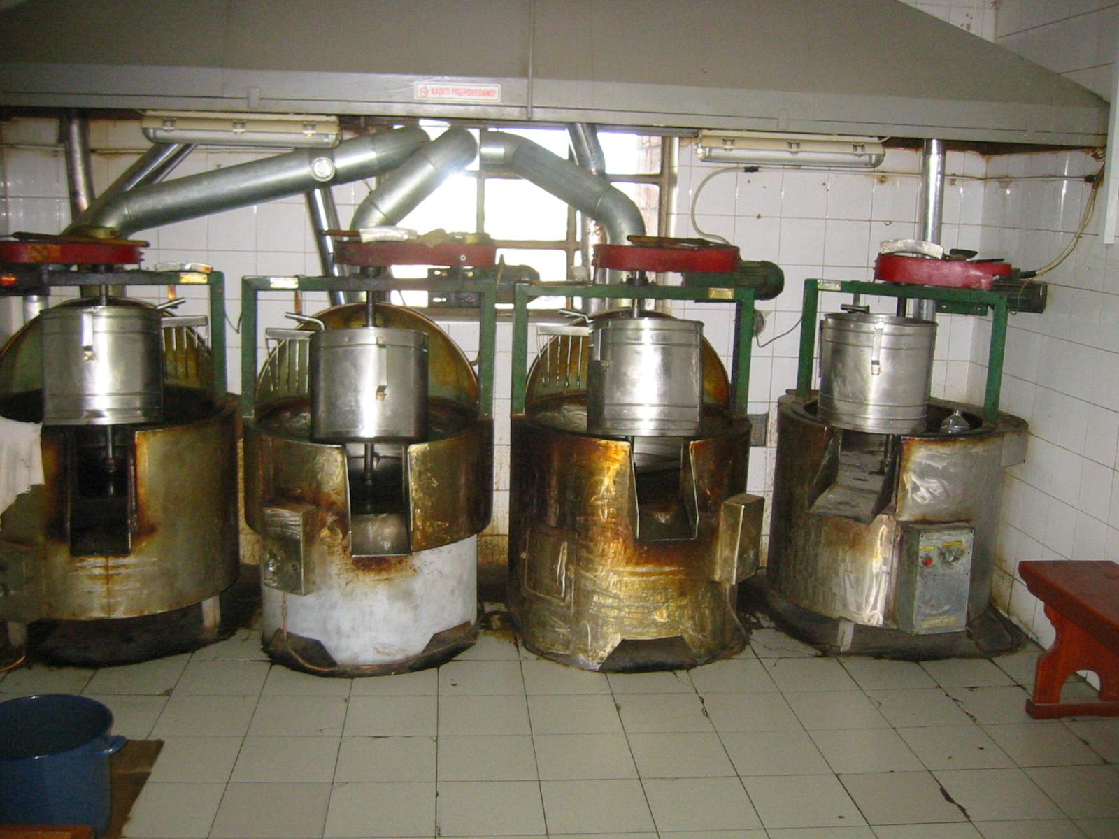 Pumpkin seed oil procedure, at Prekmurje, Slovenia photo:Ziga 11:01, 22 October 2006 (UTC)